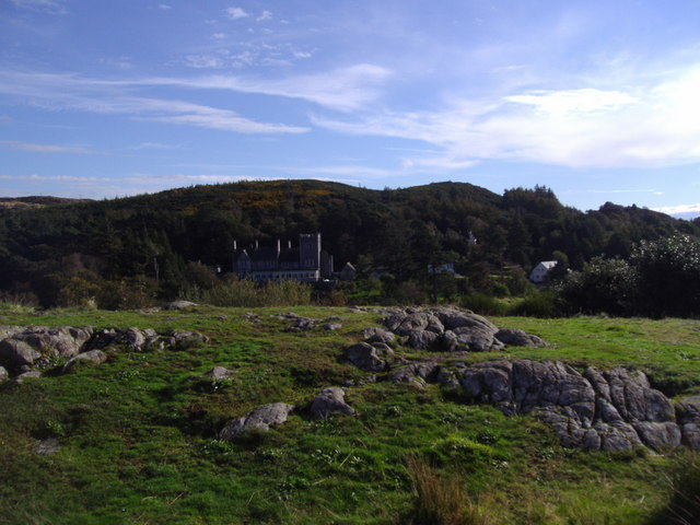 Top of the Mote of Mark Most of the top of the Mote is flat, although there is a hollow where it is believed that iron working took place. The distant building is the Baron's Craig hotel.